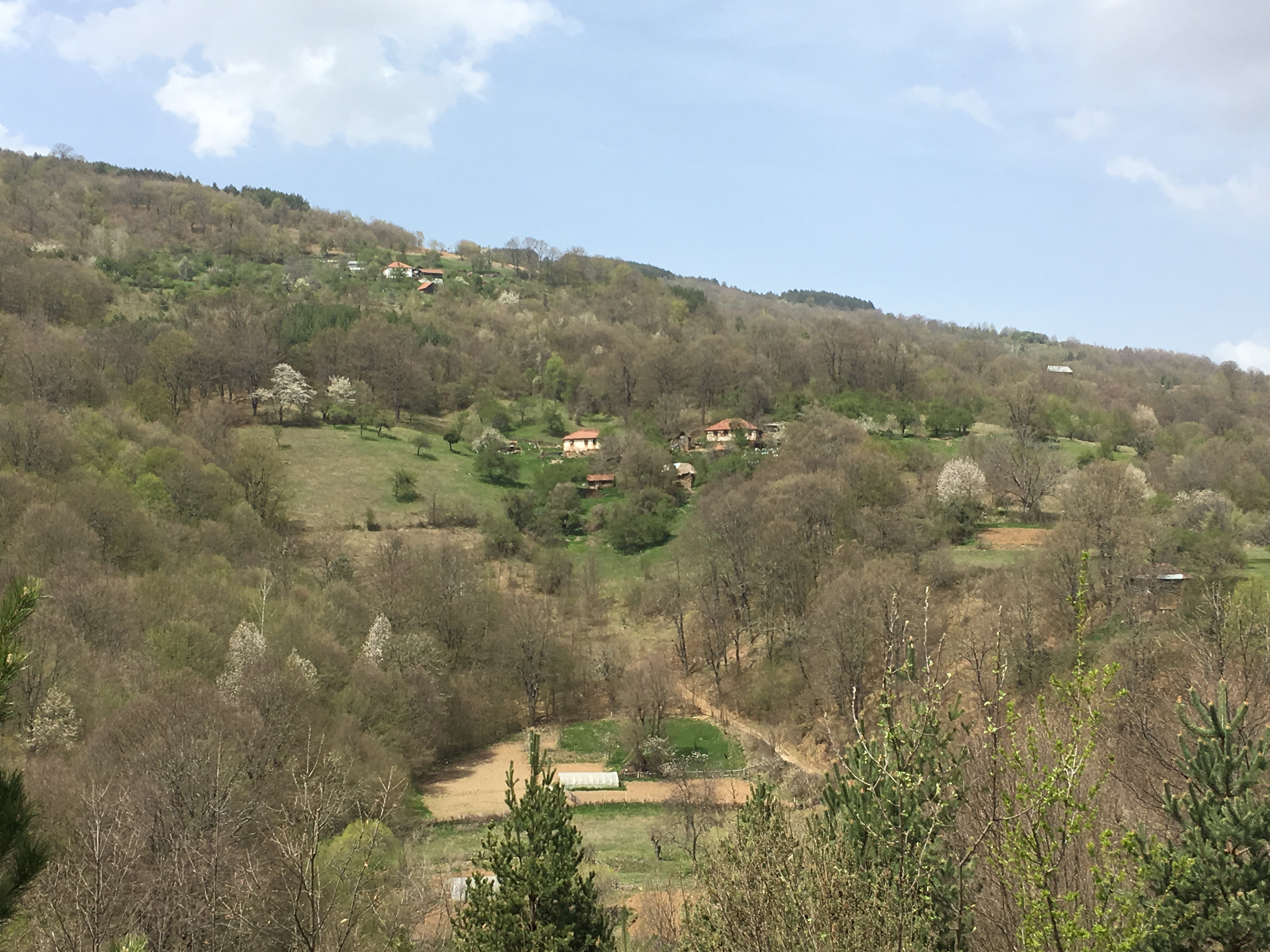 The Veli Vrv mahala of the village of Trnovo